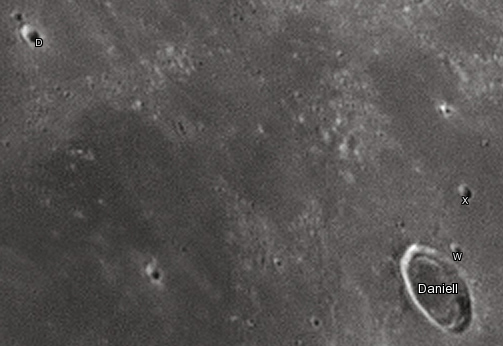 Daniell lunar crater as seen from Earth with satellite craters labeled